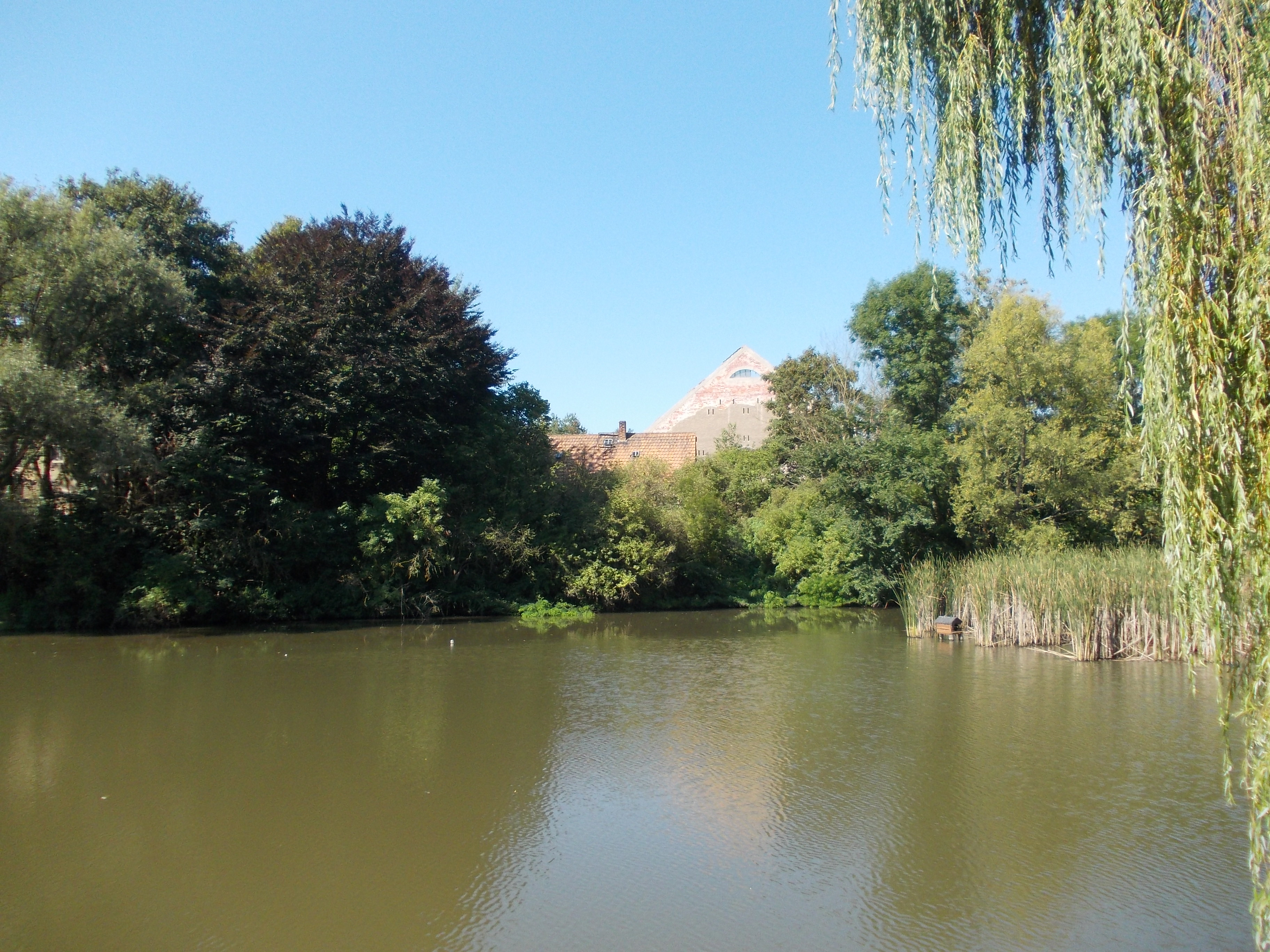 Pond in Motterwitz (Grimma, Leipzig district, Saxony)